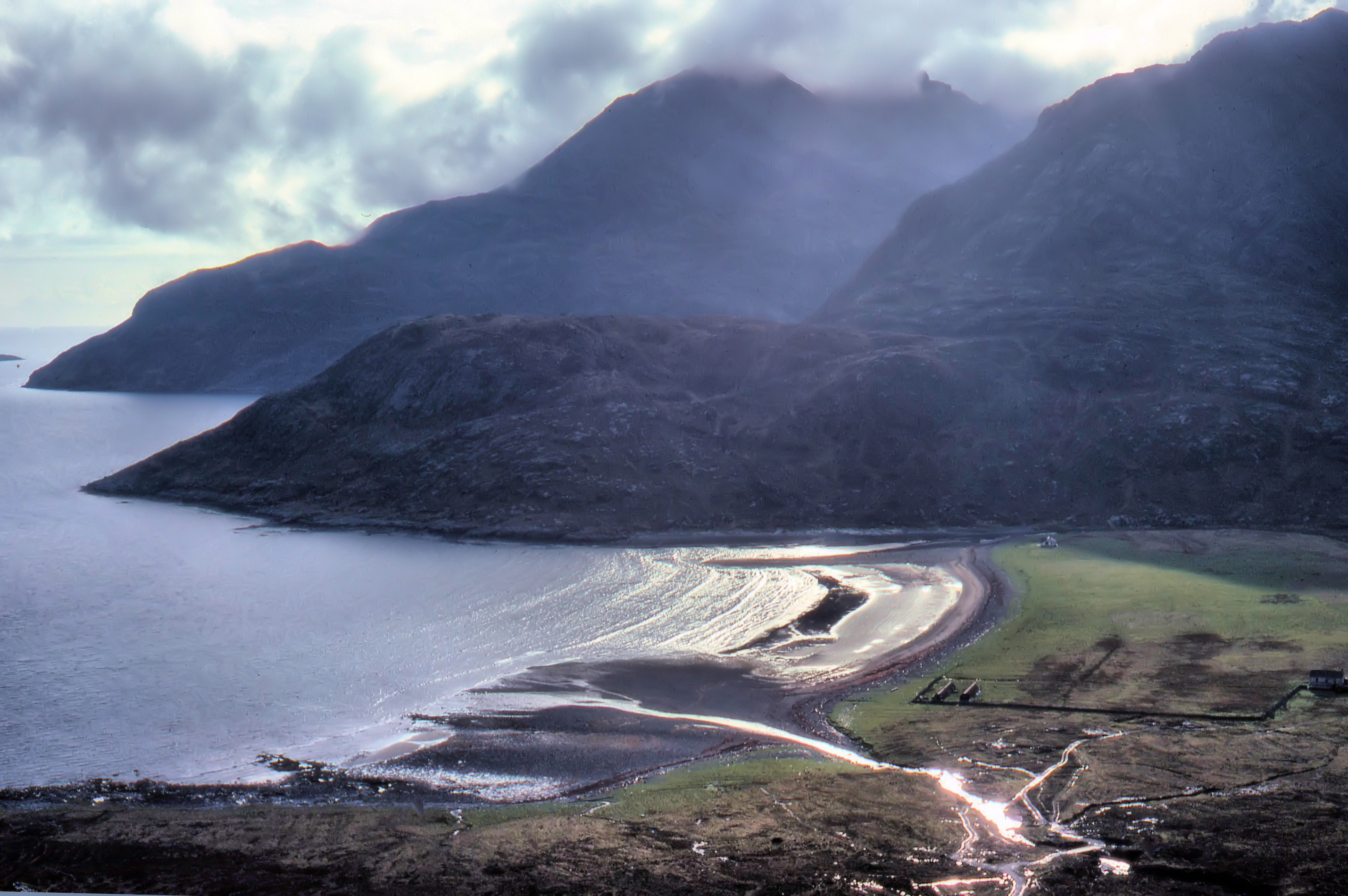 Camasunary, Isle of Skye, Scotland. Taken by Adrian Pingstone in 1976 and placed in the public domain.